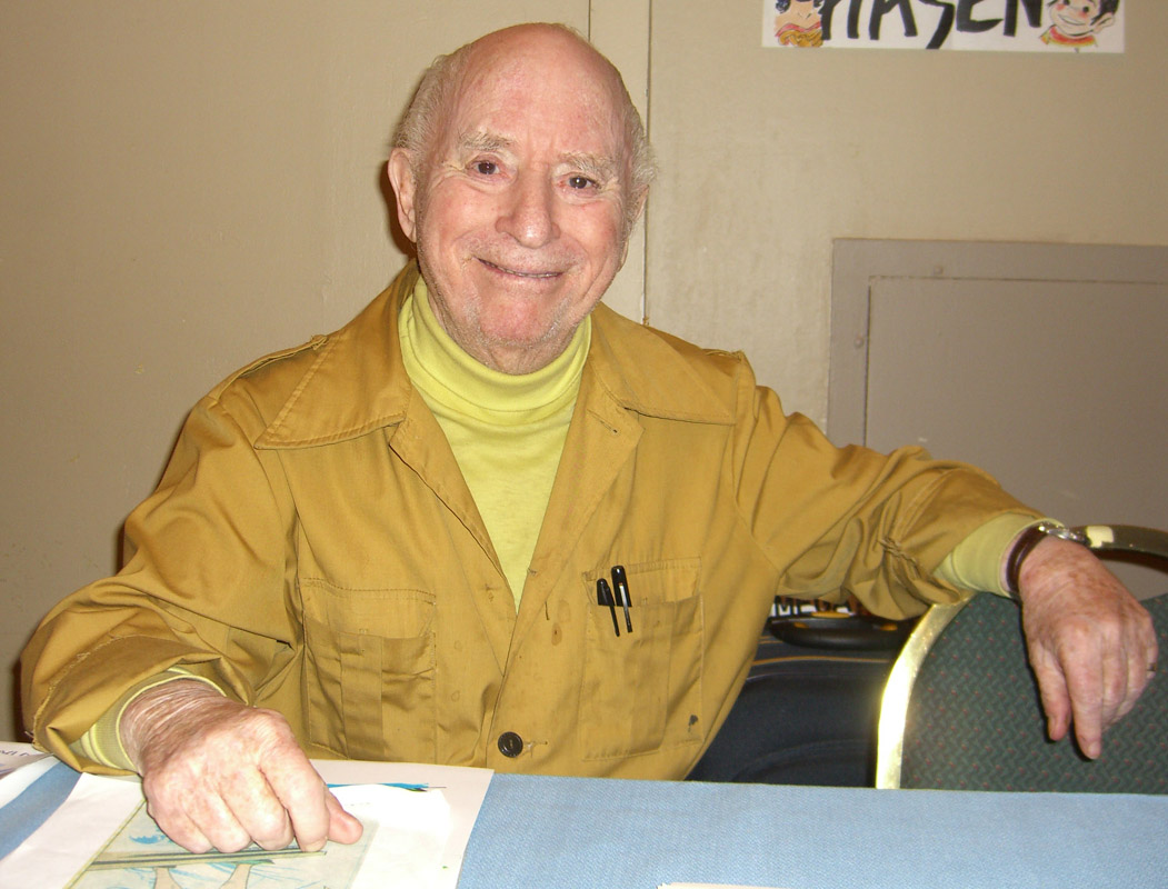 Comic book creator Irwin Hasen at the Big Apple Summer Sizzler in Manhattan, June 13, 2009. This photo was created by Luigi Novi. It is not in the public domain, and use of this file outside of the licensing terms is a copyright violation.